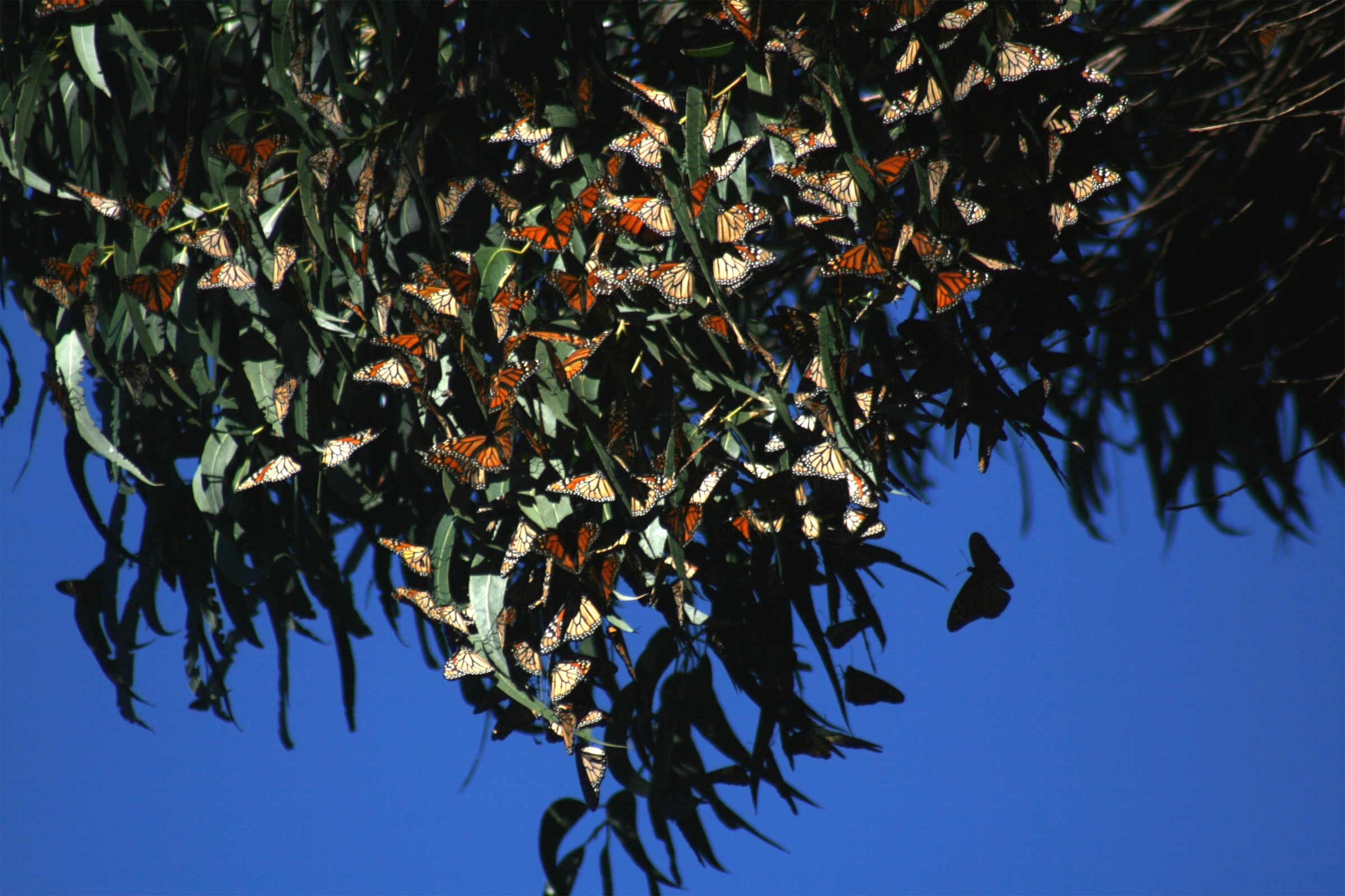 Monarch butterflies cluster in Santa Cruz, California. Monarch butterflies migrate to Santa Cruz to spend a winter.